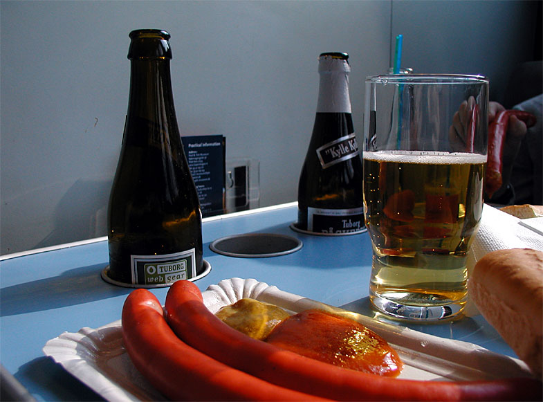 Red pølse and beer